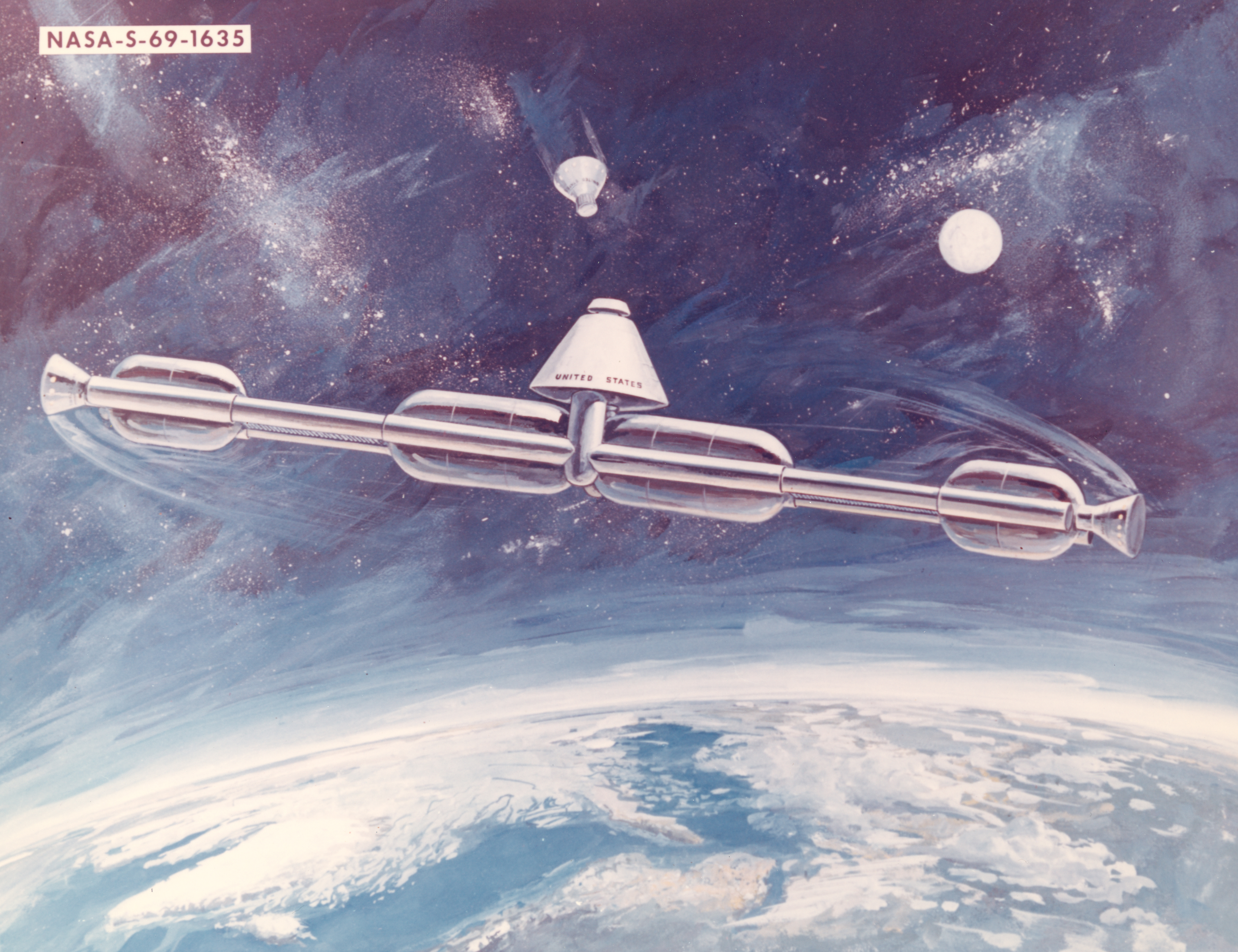 A 1969 station concept, to be assembled on-orbit from spent Apollo program stages.The station was to rotate on its centralaxis to produce artificial gravity. The majority of early space station concepts created artificial gravity one way or another in order to simulate a more natural or familiar environment for the health of the astronauts. After returning micro-gravity environment, astronauts find their muscles weak because they have not been using them. Long-term exposure to micro-gravity could generate long-term health problems for astronauts who do not utilize their muscles (tThis is why there are exercise machines on space shuttles and on the International Space Station).